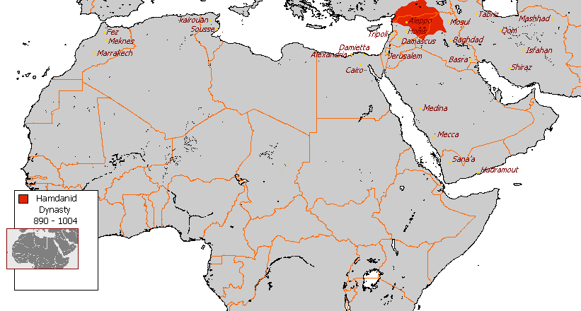 Hamdanid dynasty at its Greatest Extent